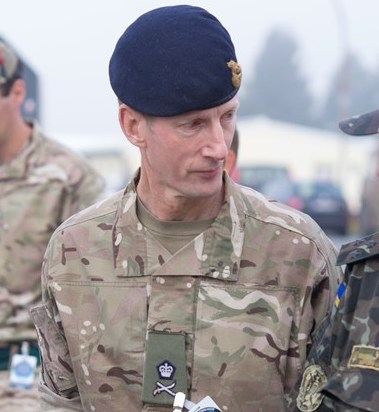 British Army Lt. Gen. Mark Poffley OBE, commander force development and capability, talks with Ukrainian Army Col. Ihor Lipko during distinguished visitor day at Exercise Combined Endeavor on Sept. 8, 2014. The goal of Combined Endeavor is to foster stronger alliance and regional relations and security arrangements through C4 systems interoperability testing between NATO and Partnership for Peace nations’ strategic and tactical communication systems.